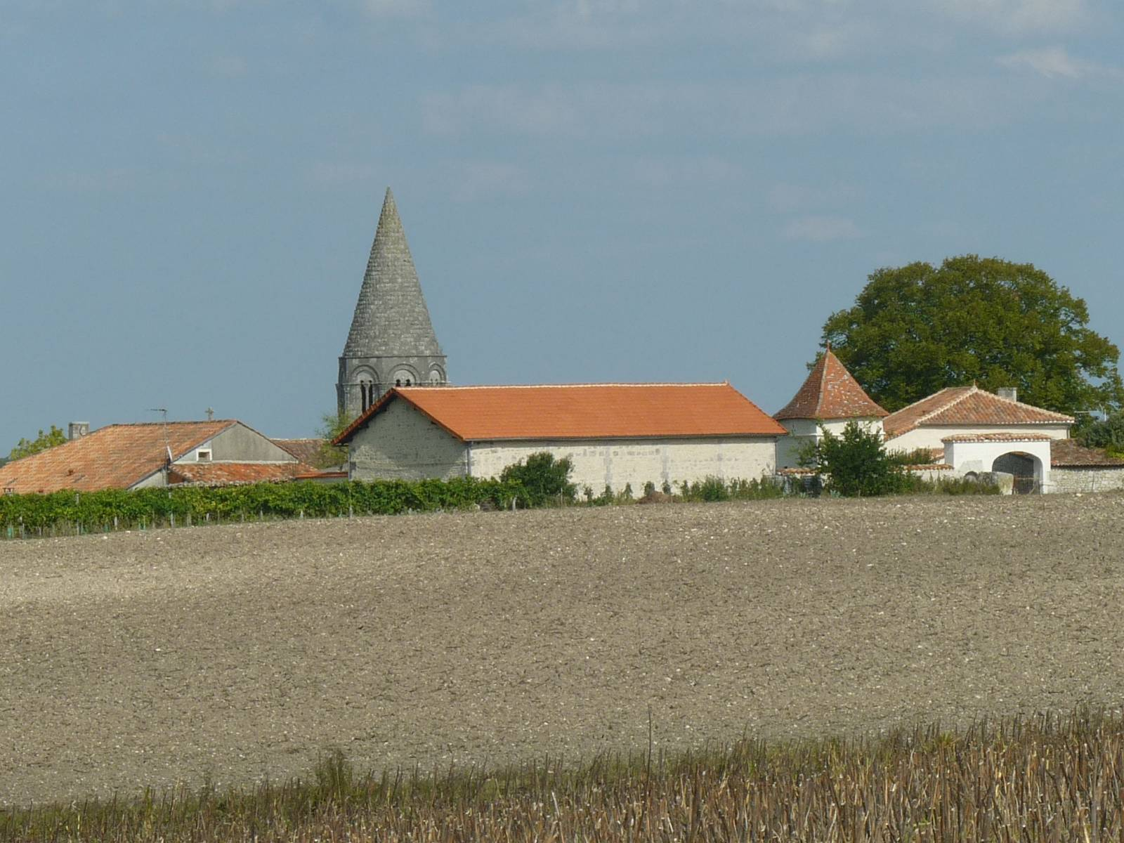 view of Plassac, Charente, SW France